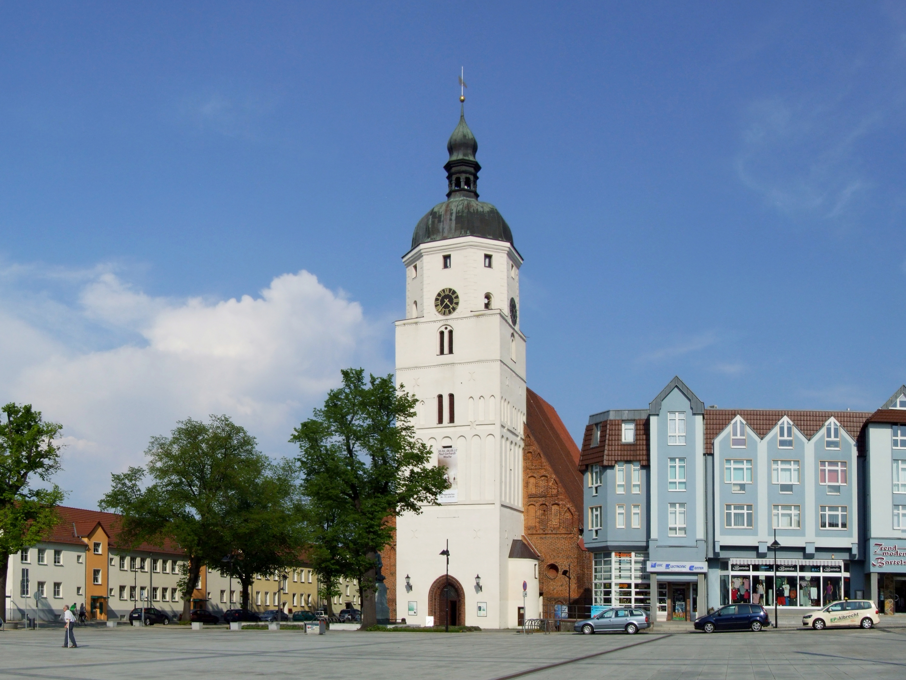 Lübben (Spreewald) / Lubin (Błota) - Paul-Gerhard-Church